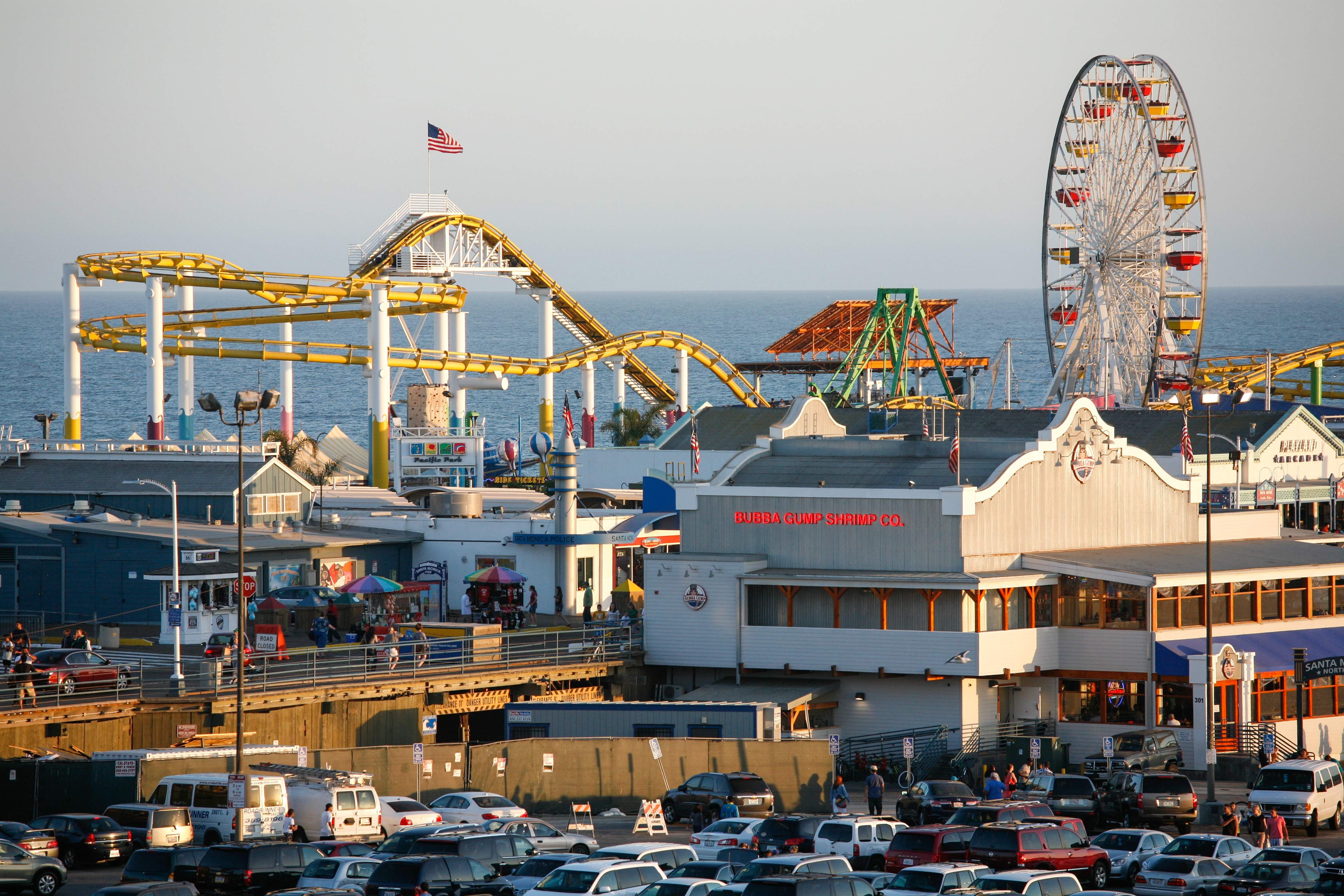 Fun Park on the Pier, Santa Monica